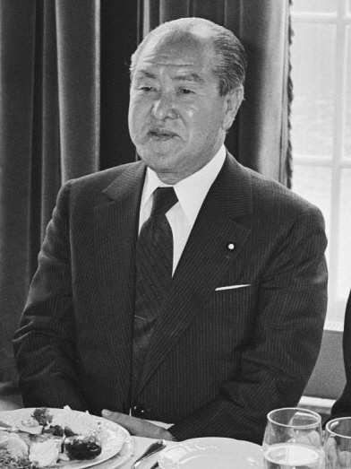 Japanese Prime Minister Suzuki in Netherlands, Ms. Kurokochi (Counsellor), Suzuki and Dutch Prime Minister Van Agt at official lunch